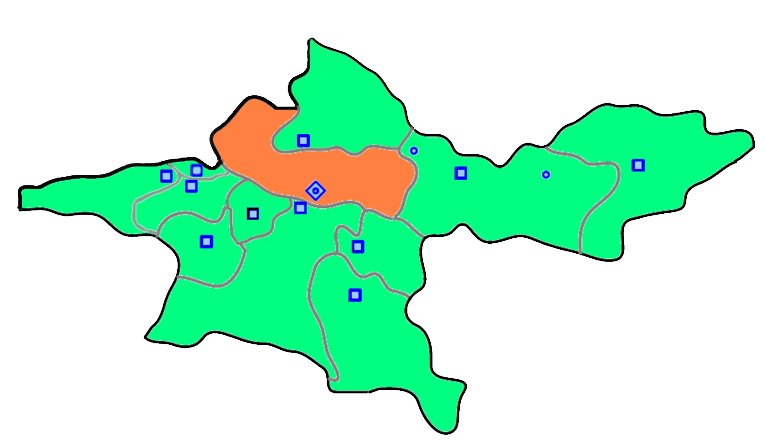 Tehran county of the Tehran Province in Iran. Taken from: and editec by Mani Parsa.